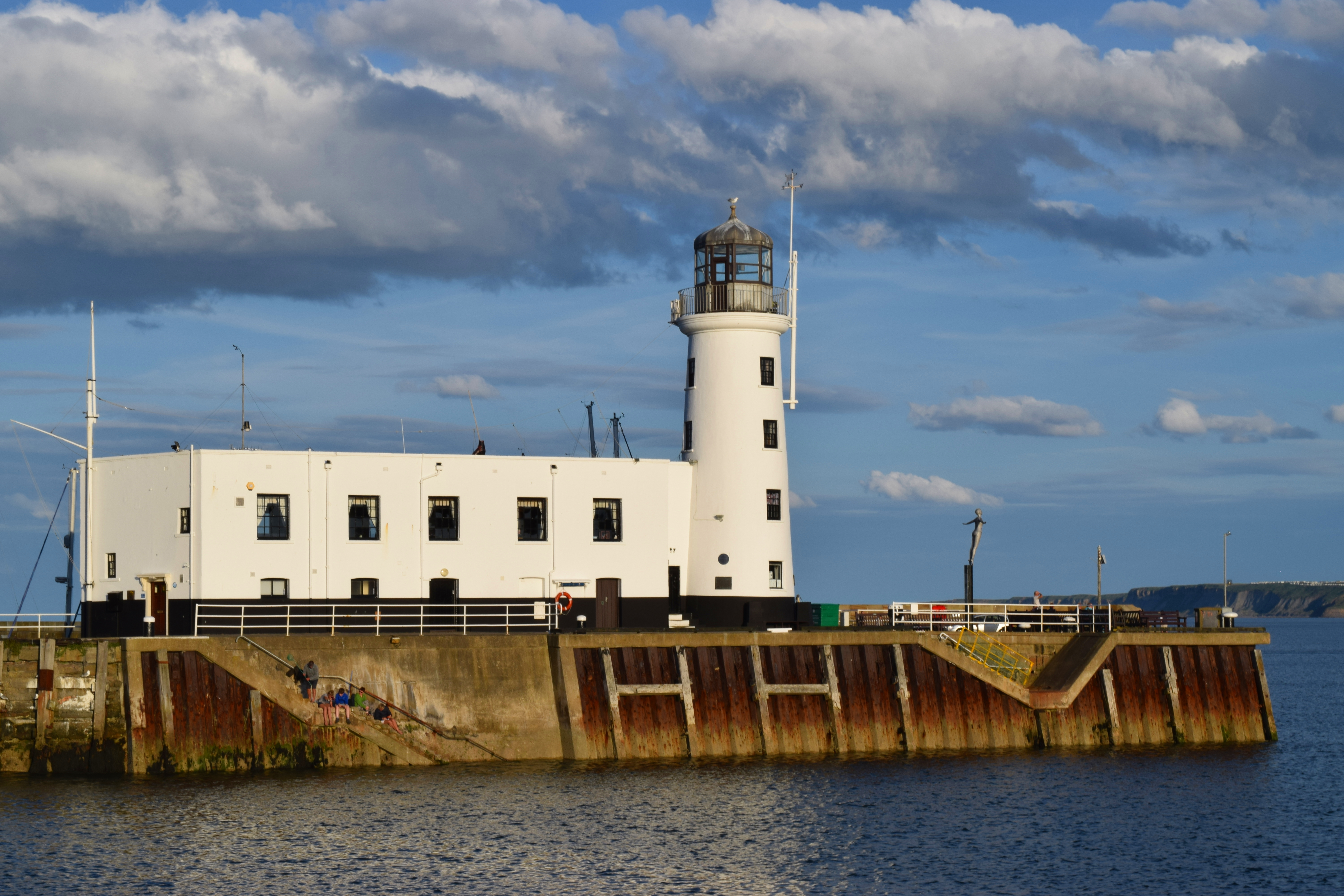 Scarborough lighthouse as seen from West Pier.